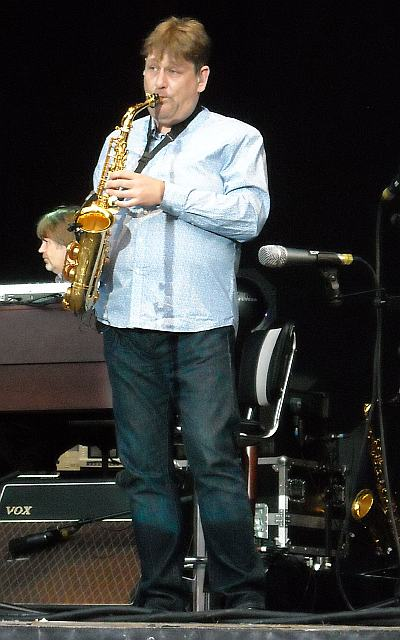 Nigel Hitchcock on stage with Mark Knopfler in Dresden/Germany July 4th, 2013